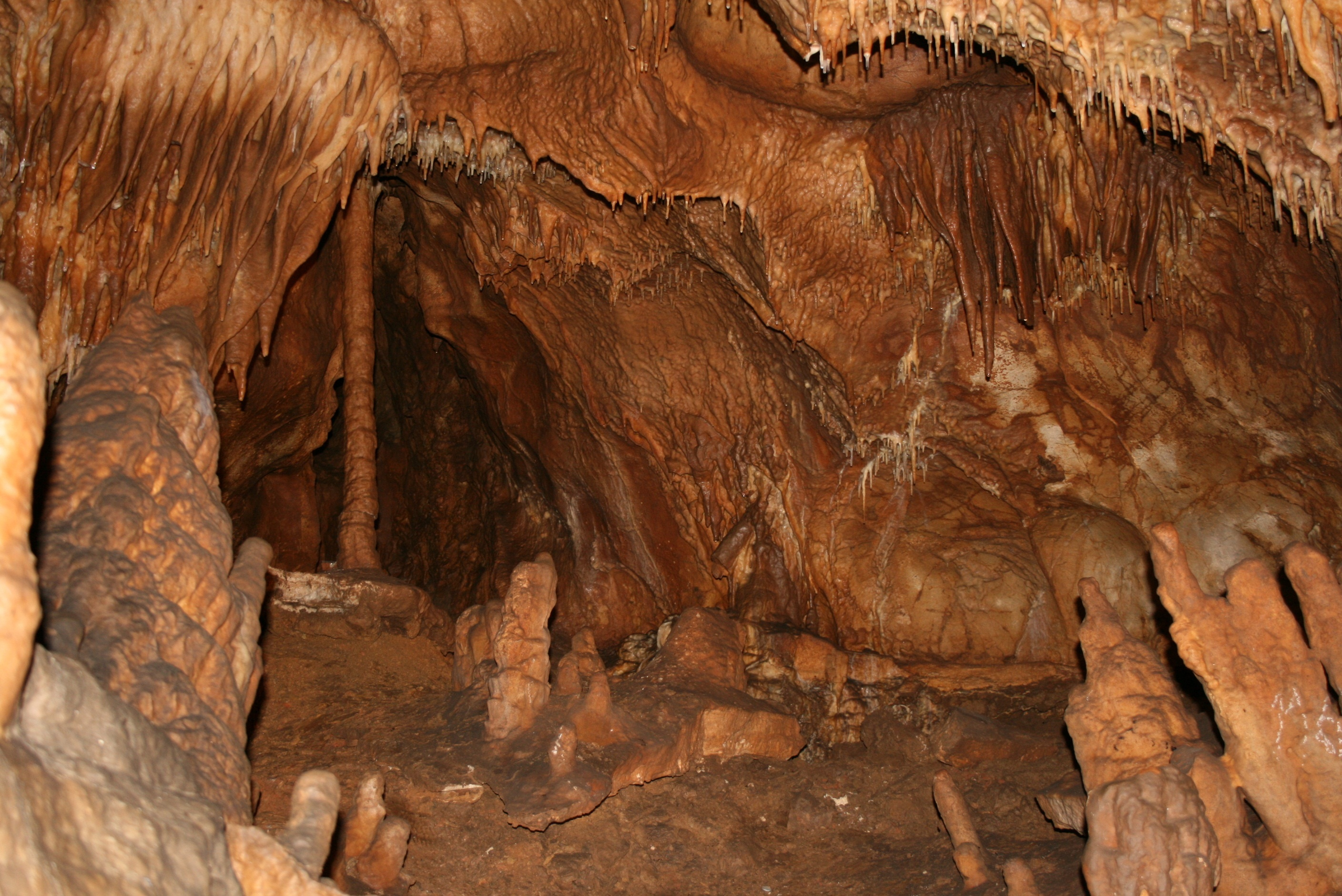 The Jasovska Cave